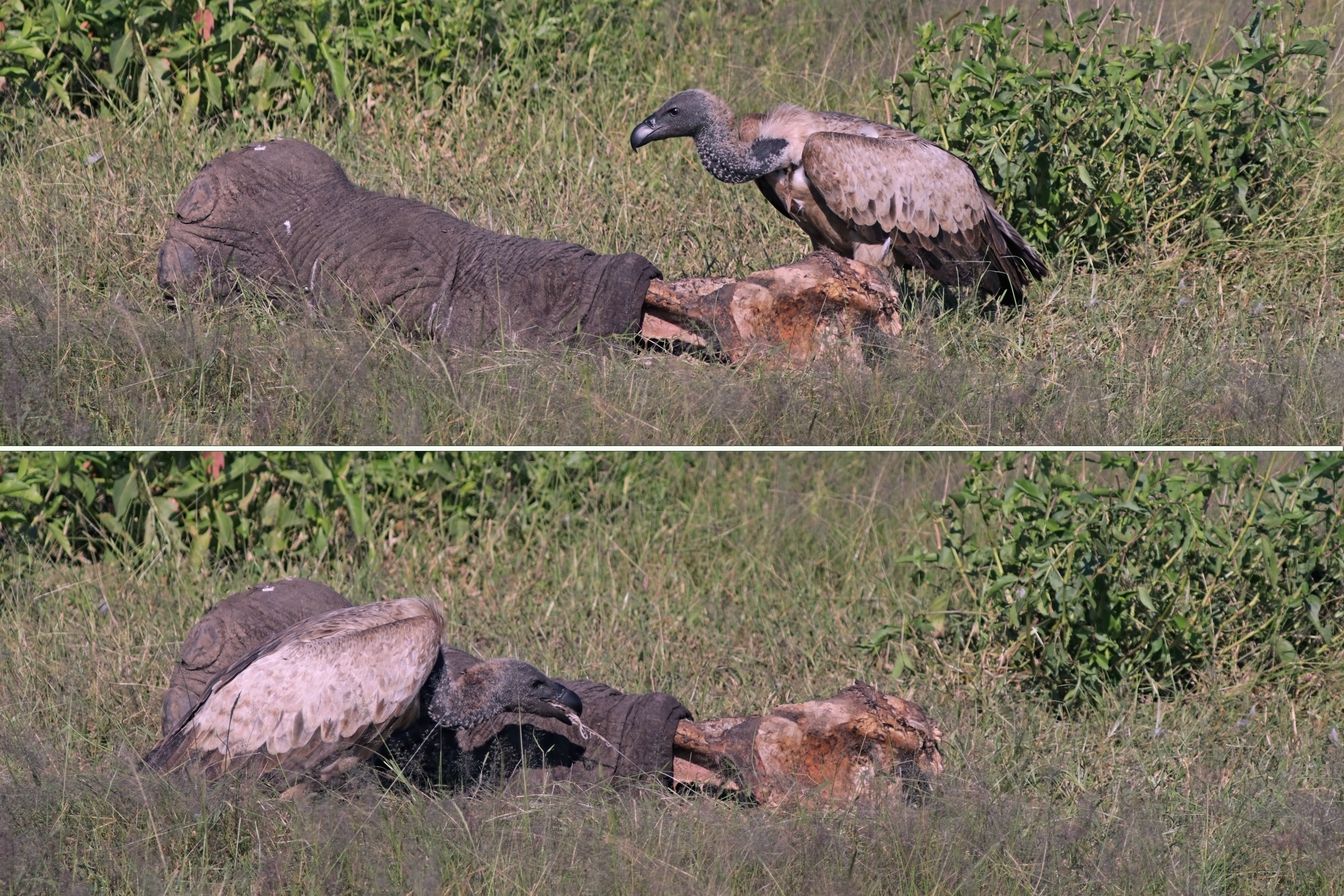 White-backed vulture (Gyps africanus) feeding on elephant leg composite, Matetsi Safari Area, Zimbabwe